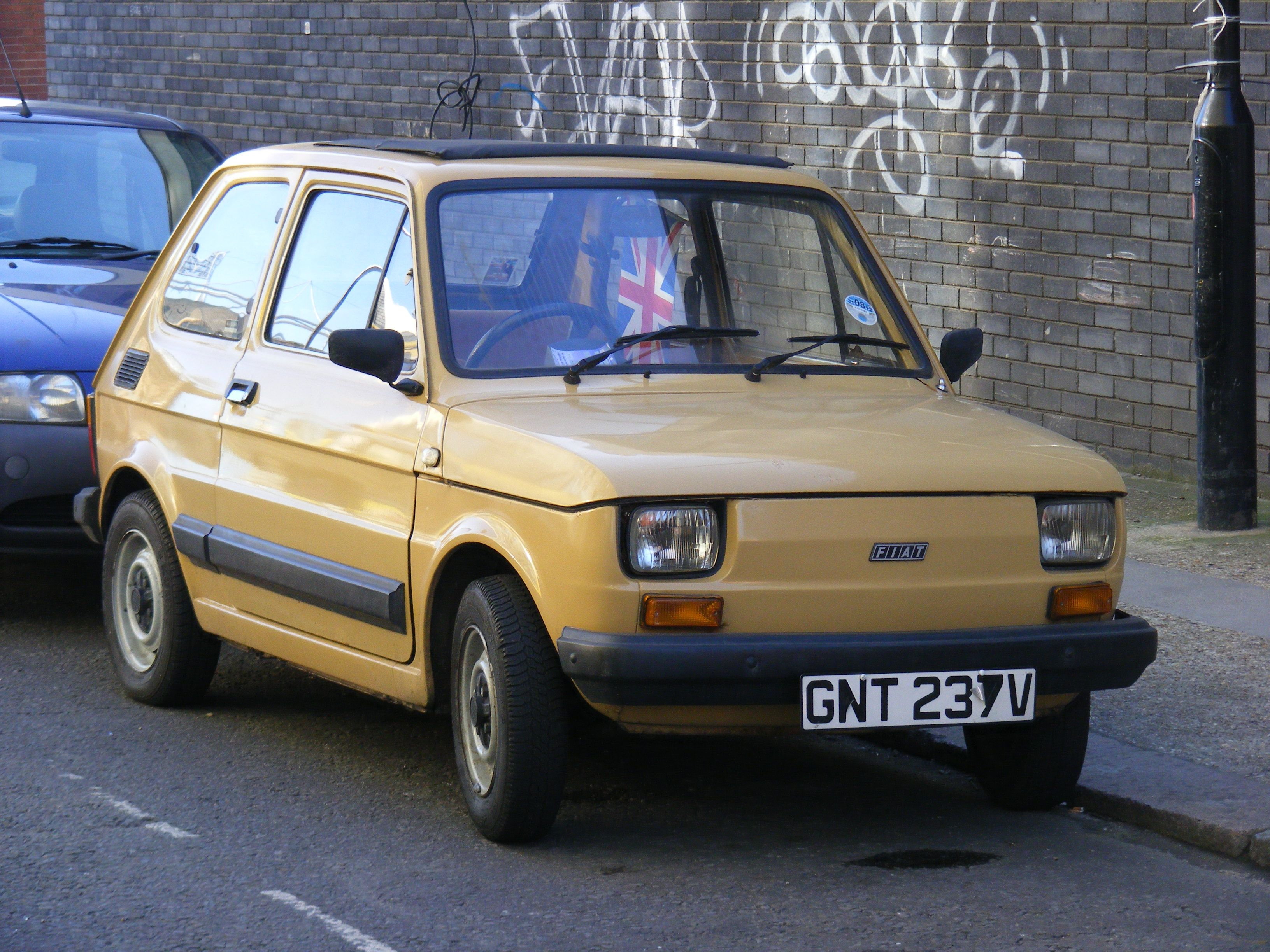 Fiat 126